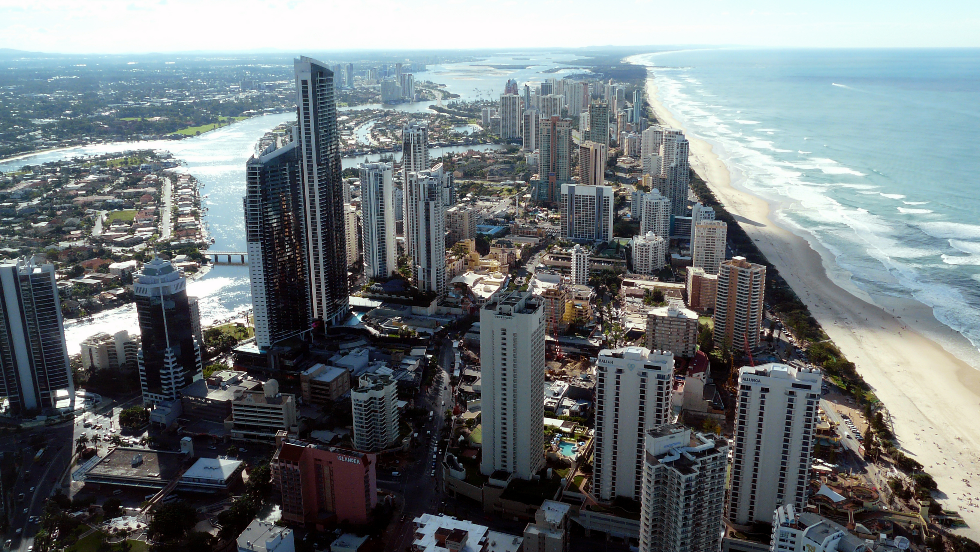 Q deck, Gold Coast